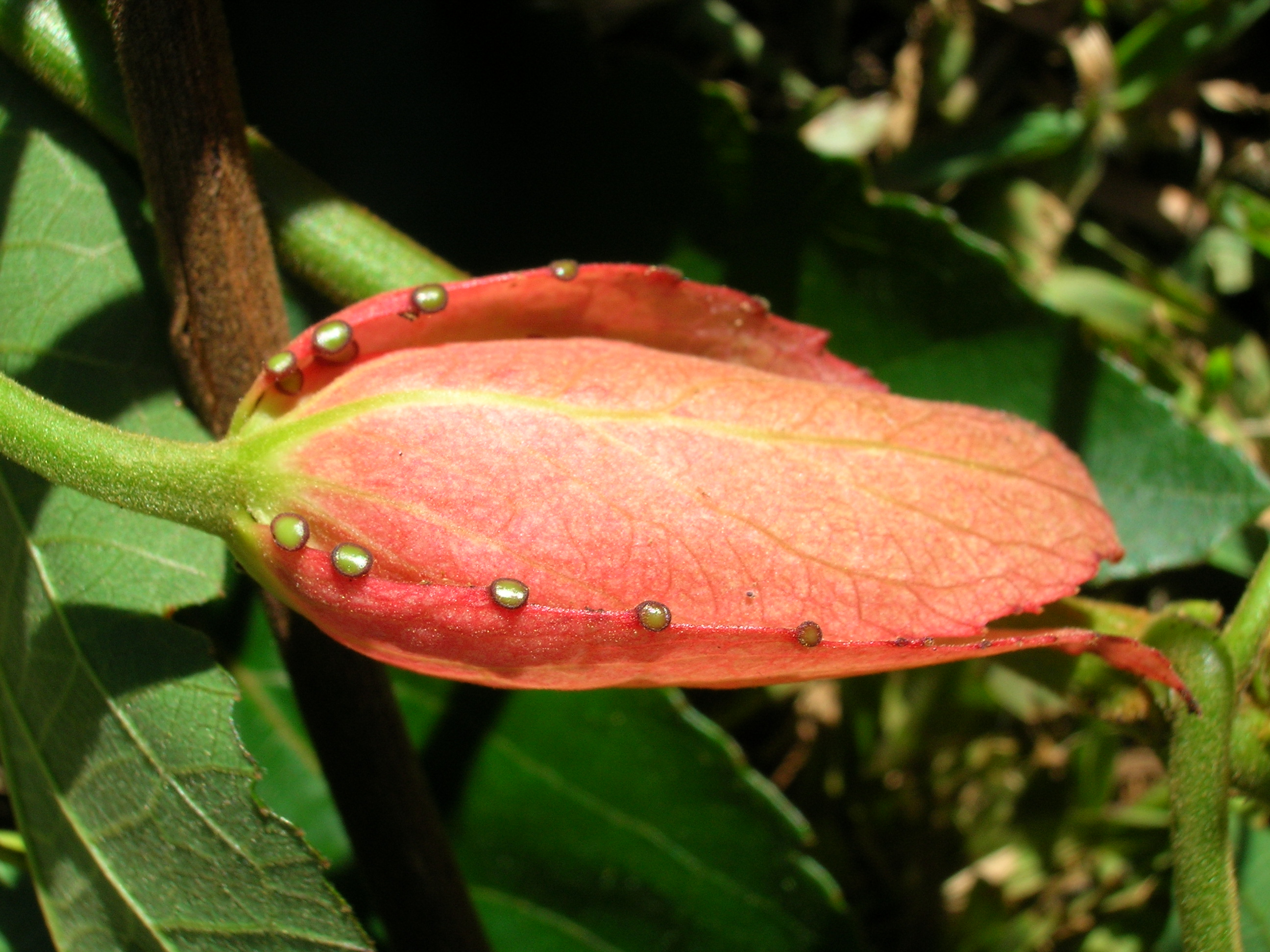 Passiflora vitifolia (bracts with glands). Location: Maui, Lilikoi Gulch Haiku